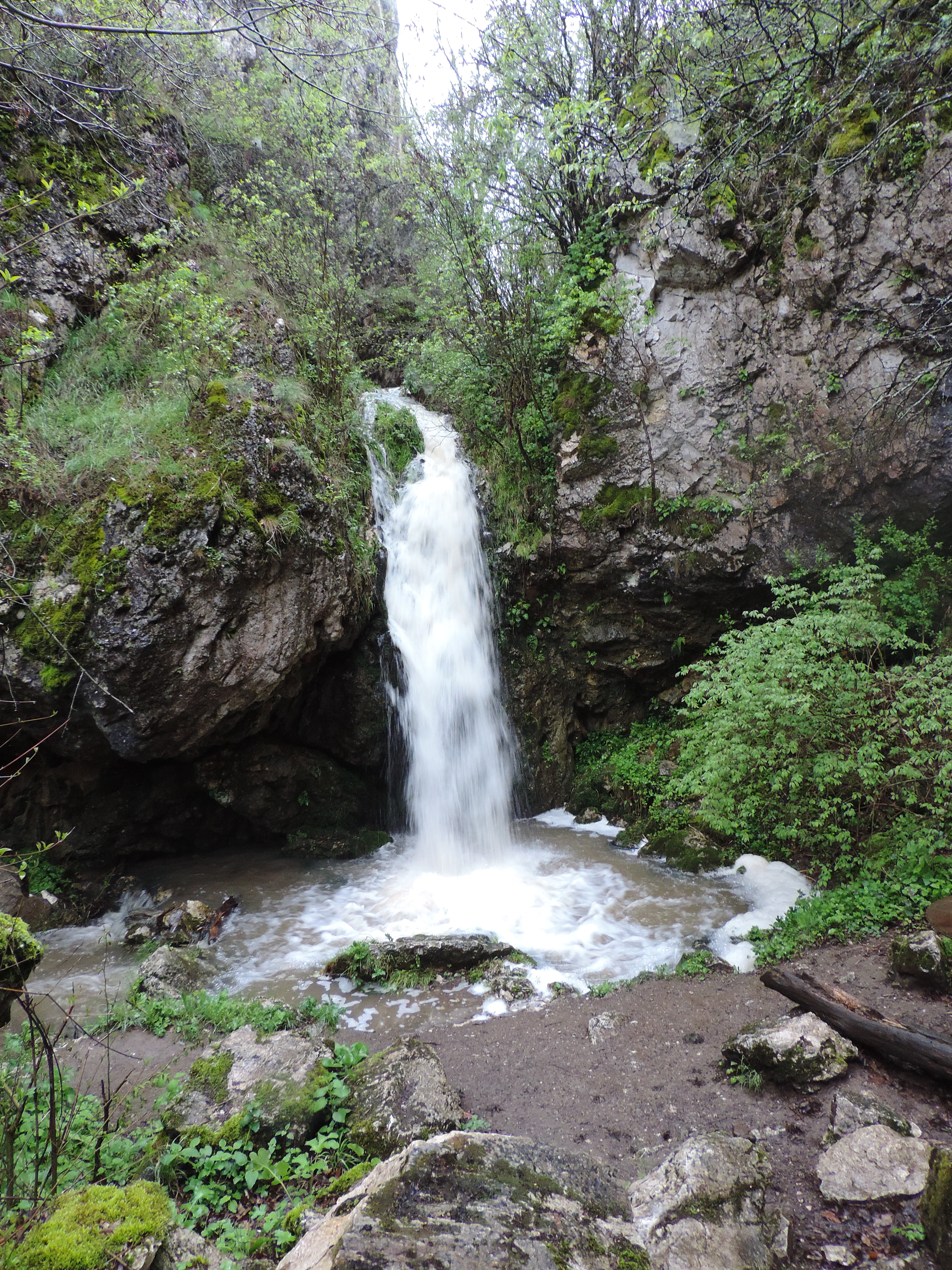 Vrabchanski waterfall, Bulgaria